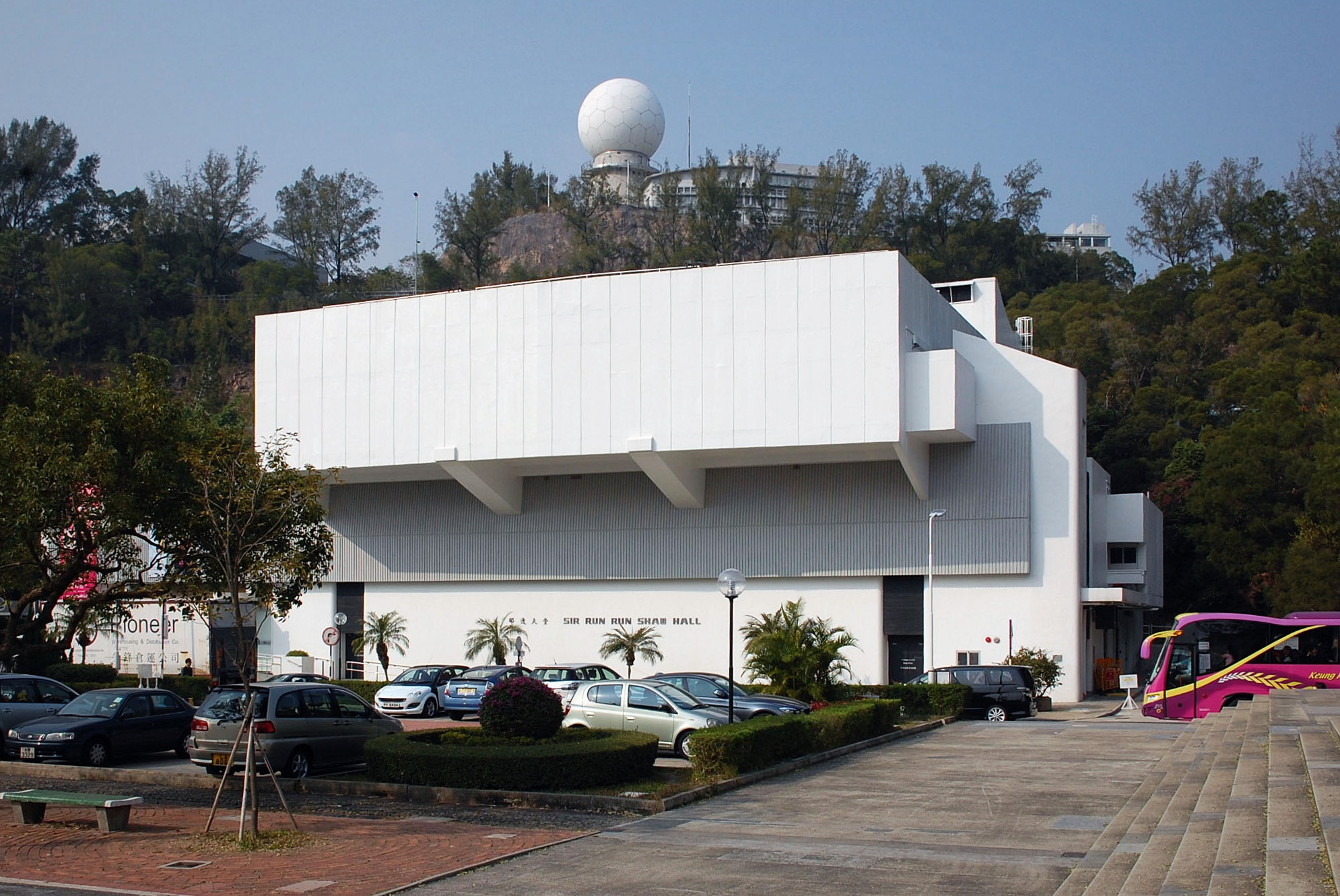 Sir Run Run Shaw Hall, an auditorium at the Chinese University of Hong Kong. This building was built in 1981 and renovated in 2008. The hall accommodates 1438 people. 中文（香港）: 邵逸夫堂 (香港中文大學)